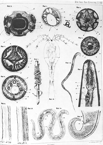 Drawings of the morphology, treatment (winding worm on stick), and vector for Dracunculus medinensis